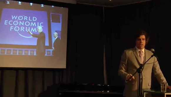 Bloom Consulting CEO Jose Filipe Torres at The Berlin International Economics Congress 2011 speaking about Nation Branding